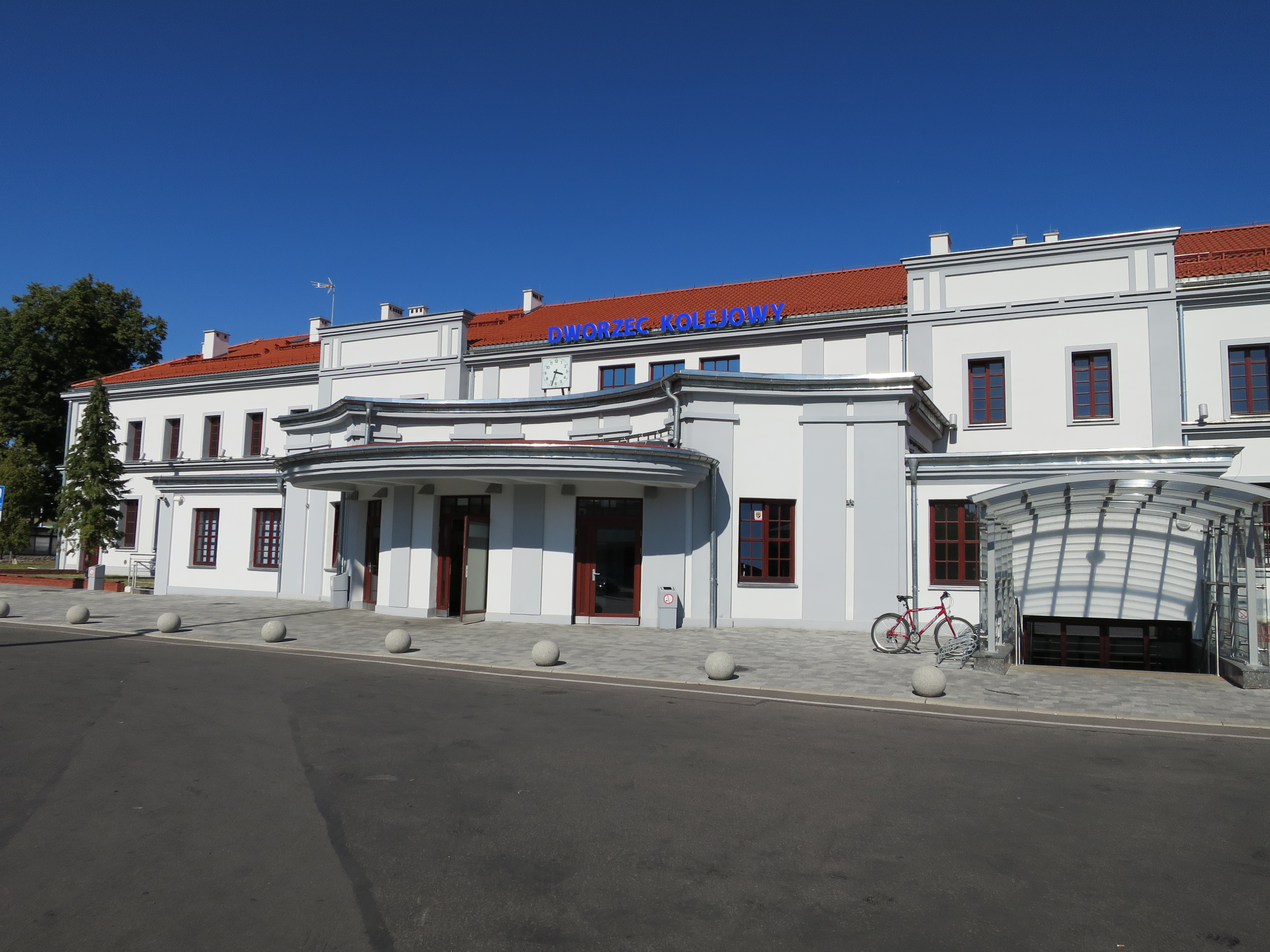 Dworzec kolejowy w Ełku This photo was taken during Railway Wikiexpedition 2015 set up by Wikimedia Polska Association in cooperation with Fundacja Grupy PKP. You can see all photographs in category Wikiekspedycja kolejowa 2015.